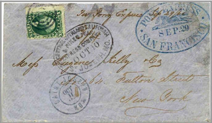 Pony Express cover (mailing) from St. Joseph